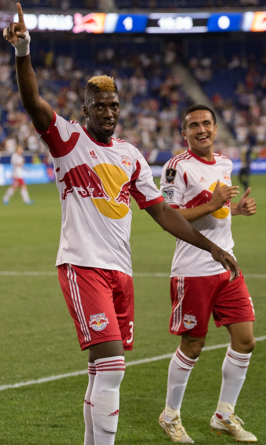 Saër Sène with team mate Tim Cahill in August 2014